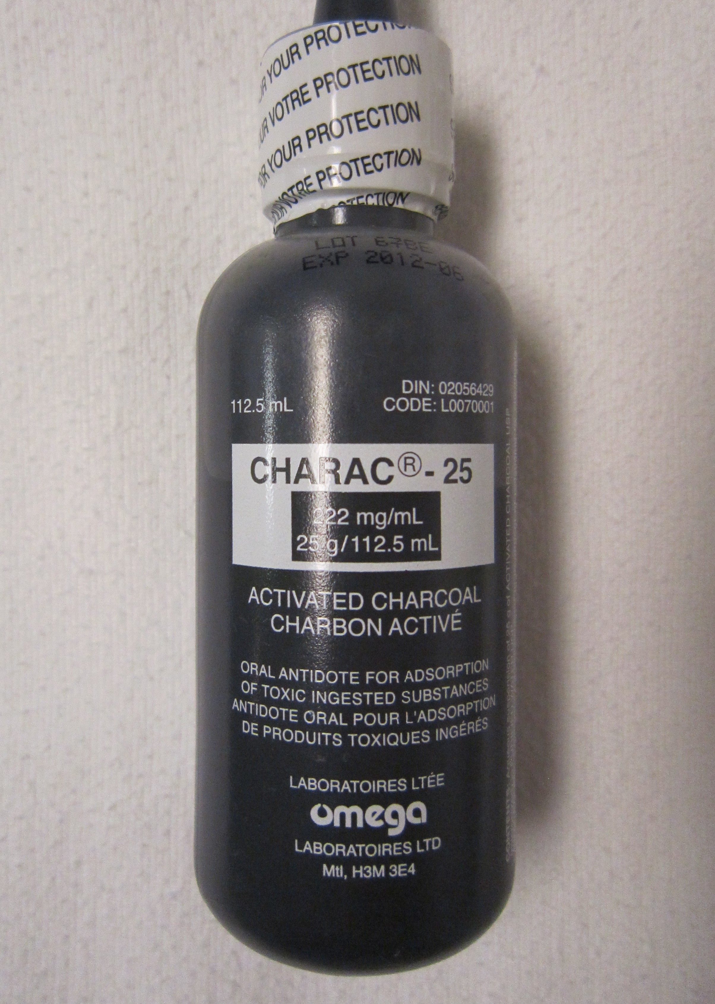 Oral charcoal used typically used to treat an overdose.